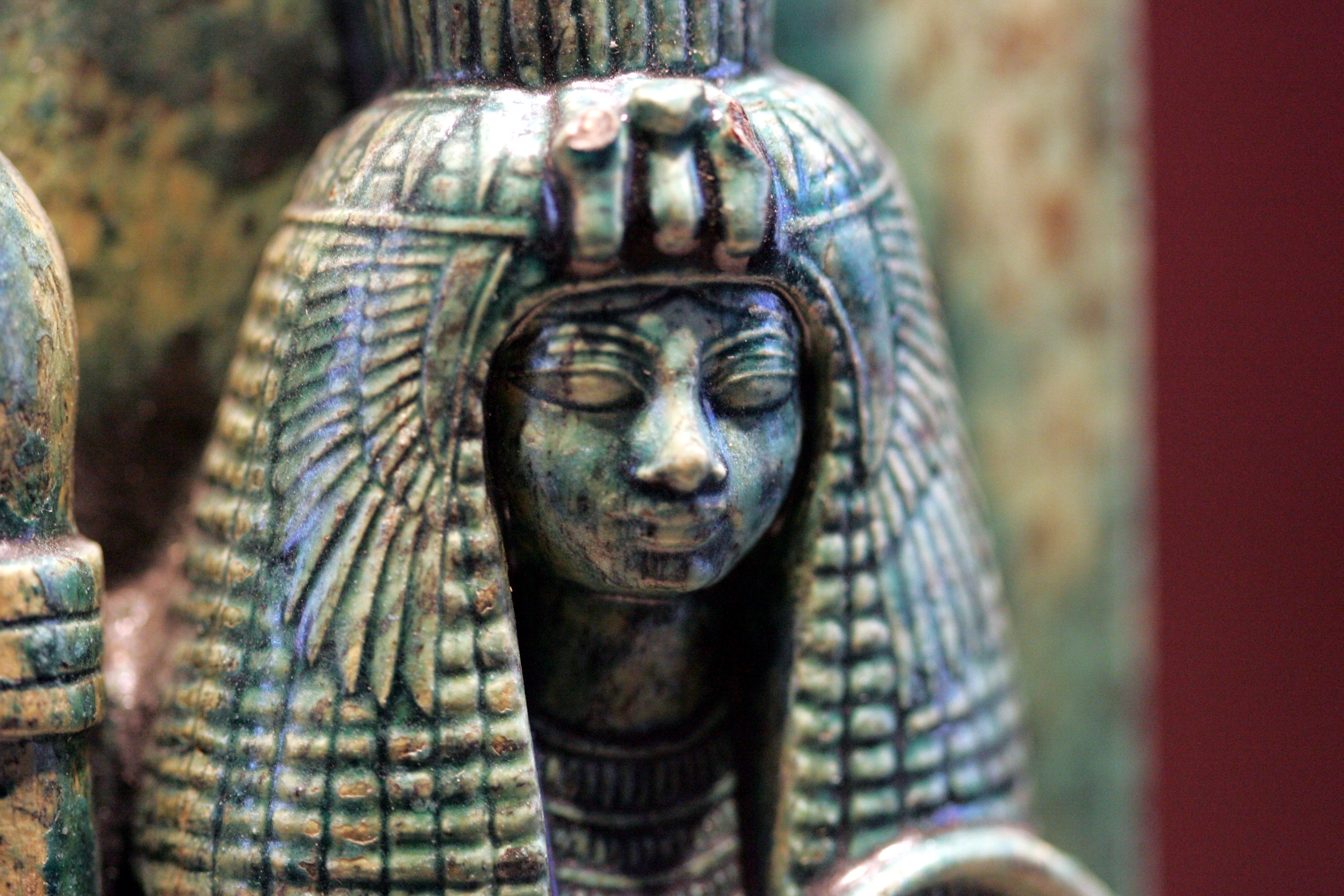 Fragmentary statite statue of Queen Tiye.